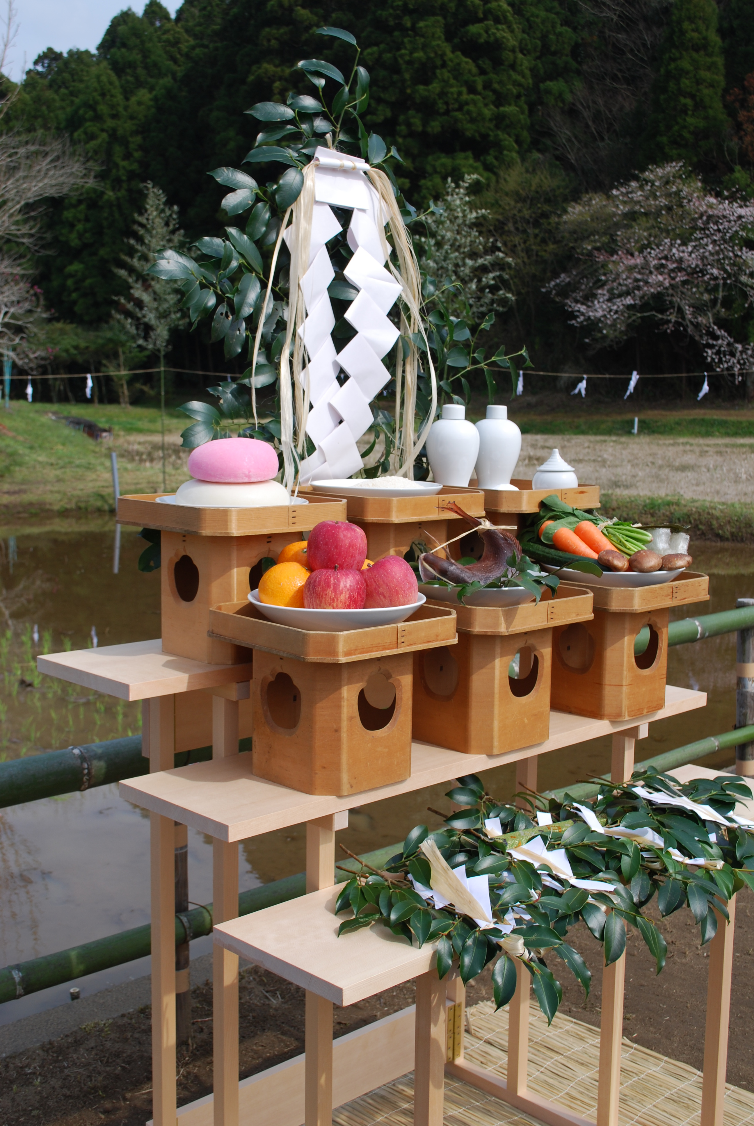 Votive offering of the Shinto,Katori-jingu,Katori-city,Japan. Sakaki tree,Sake,Rice,Rice cake,Vegetables,Fish,Fruits.